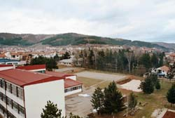 Панорама